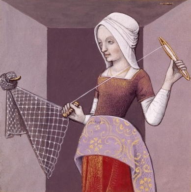 Arachne